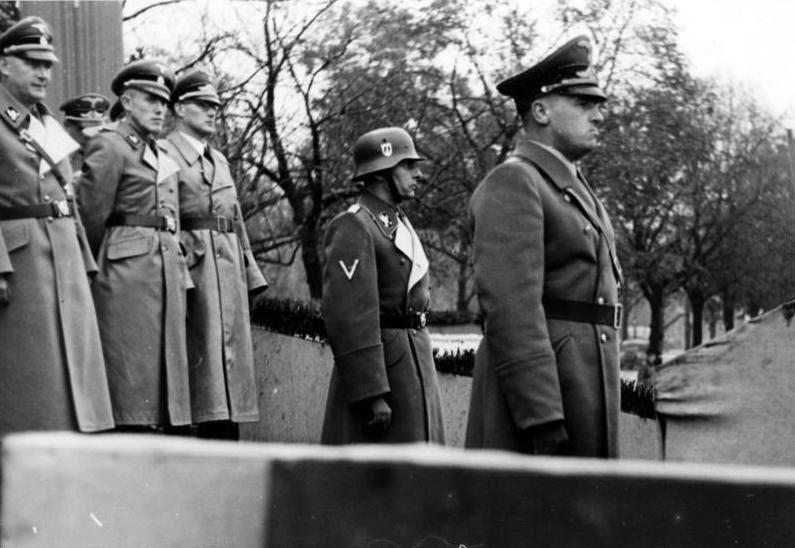 During a parade of police forces, Hans Frank (right), the Governor General (of Poland), is standing in front of his deputies. SS-Obergruppenführer Krüger, HSSPf in the General Government (the part of Poland which is occupied by Germany, not annexed), is standing behind Frank, wearing a steel helmet.